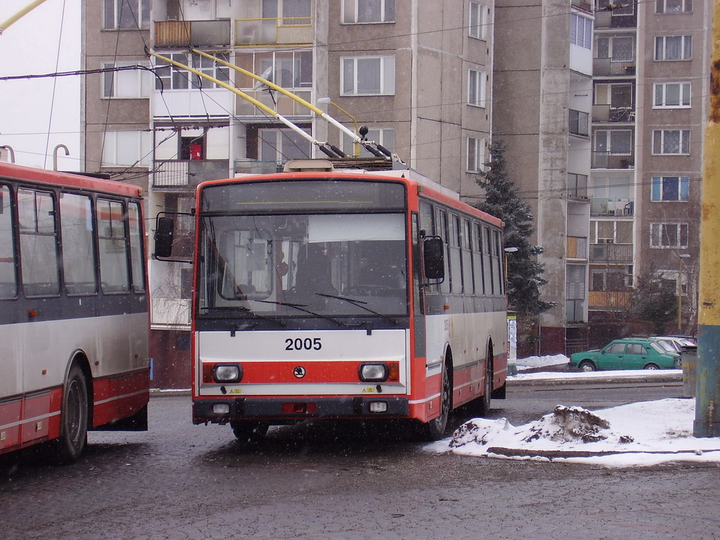 Skoda 14TrM trolleybus by Sheep221